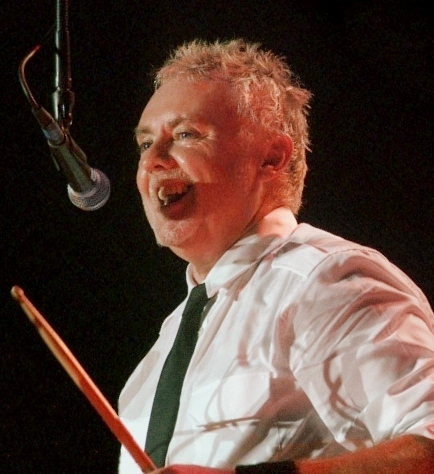 Roger Taylor @ Queen + Paul Rodgers live in Vienna, Austria